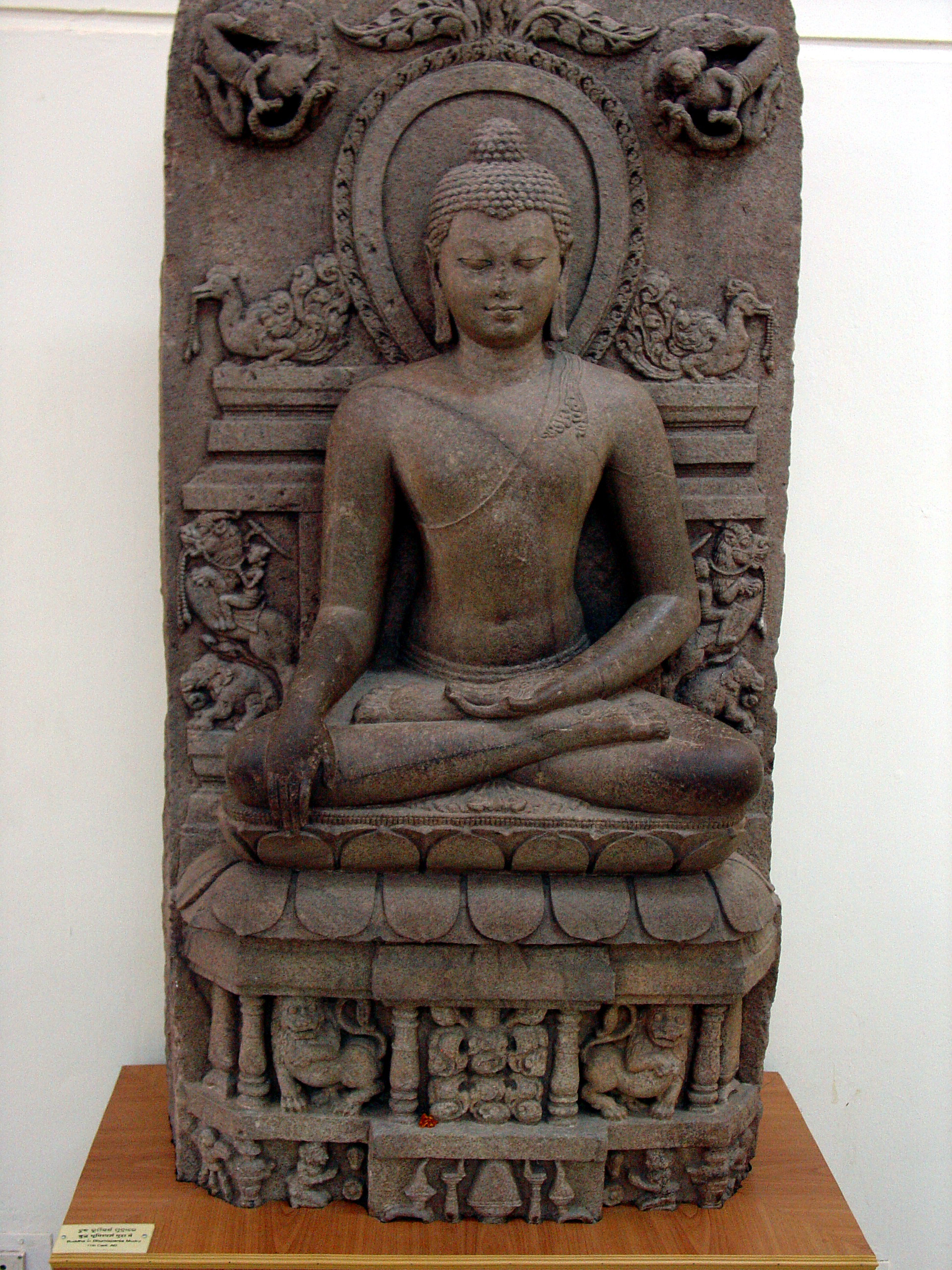 Seated Buddha, 11th century. Ratnagiri Museum The Buddha sits in bhumisparsha mudra beneath a stylized Pipal tree (above his halo). Decorations include flying celestials, birds with elaborate tails, gajasimhas with riders, lions, and worshipers along the base.